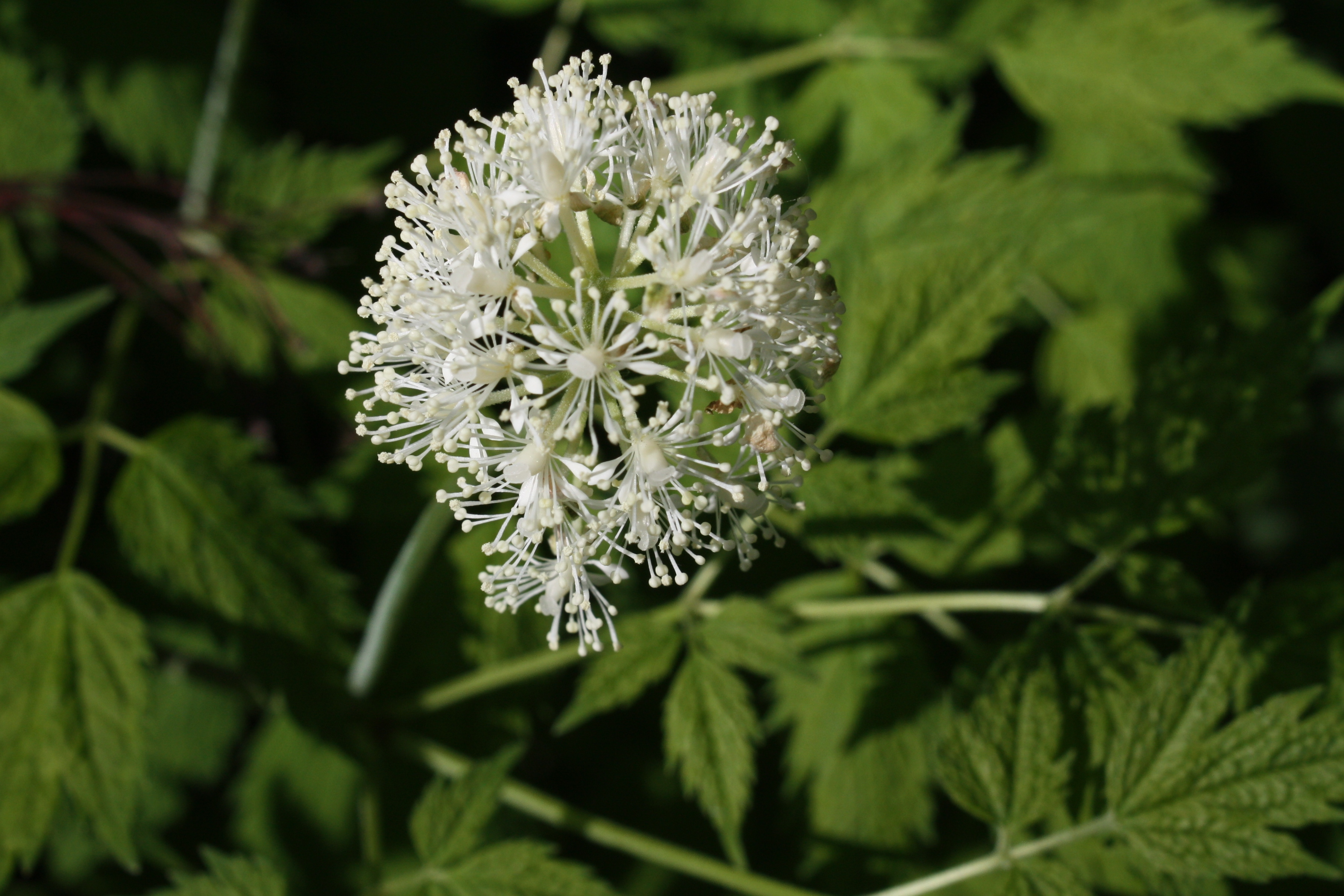 Red Baneberry (Actaea rubra) in Botanical Garden in Kaisaniemi in Helsinki